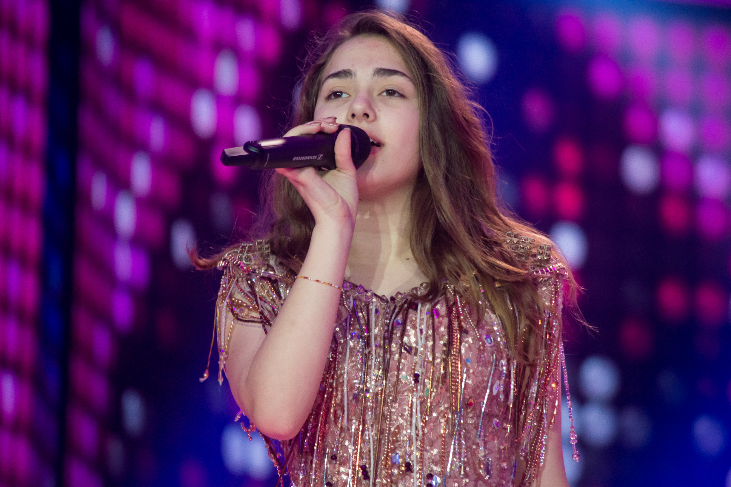 JESC 2016 participant: Martija Stanojkovic (Macedonia)